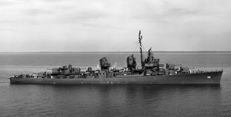 The U.S. Navy destroyer USS David W. Taylor (DD-551) in Mobile Bay (USA) on 26 September 1943. David W. Taylor had been commissioned on 18 September 1943.